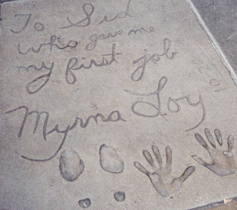 Photograph of the handprints and footprints of the actress Myrna Loy, in the forecourt of Grauman's Chinese Theatre on Hollywood Boulevard. Like many older entries, Myrna Loy's 1936 contribution contains a personal messages to Sid Grauman; Loy's first job was as a dancer at the theater in the 1920s.